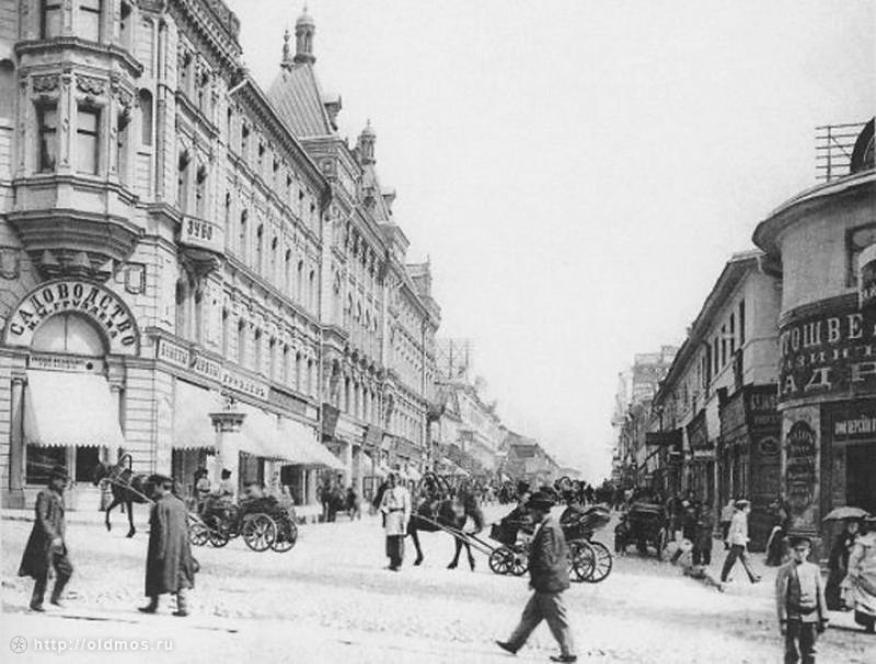 Kamergesky Lane